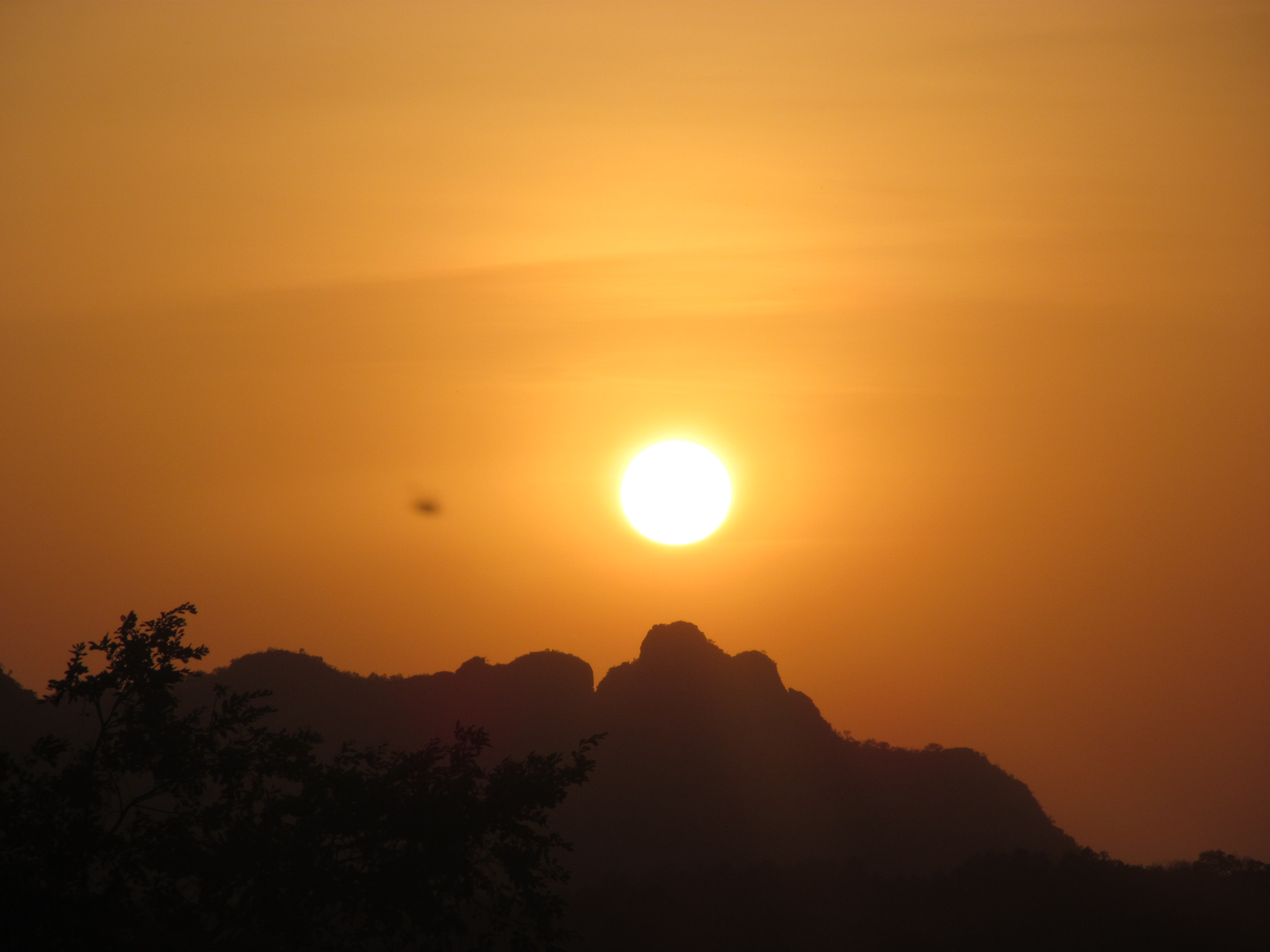 Sunset as seen from Rajendragiri park in Panchmarhi Biosphere Reserve